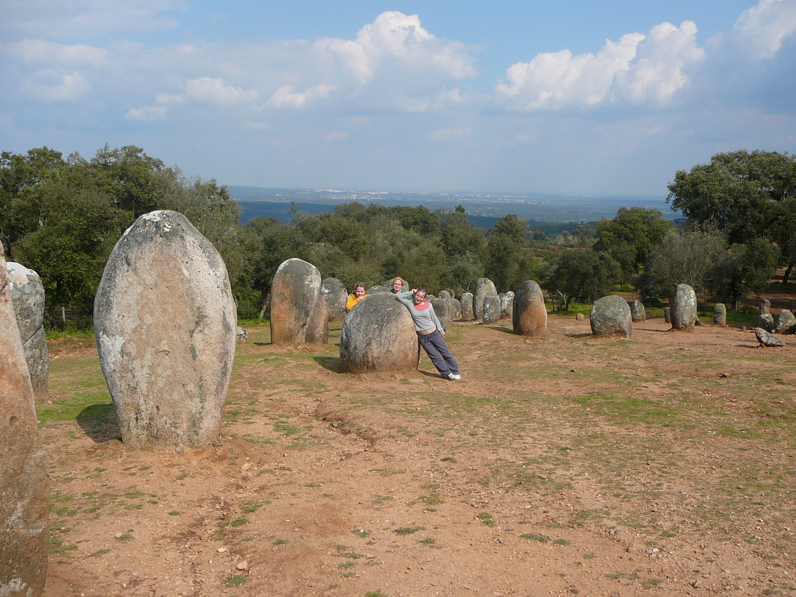 Kromlek in Portugal, near town Evora